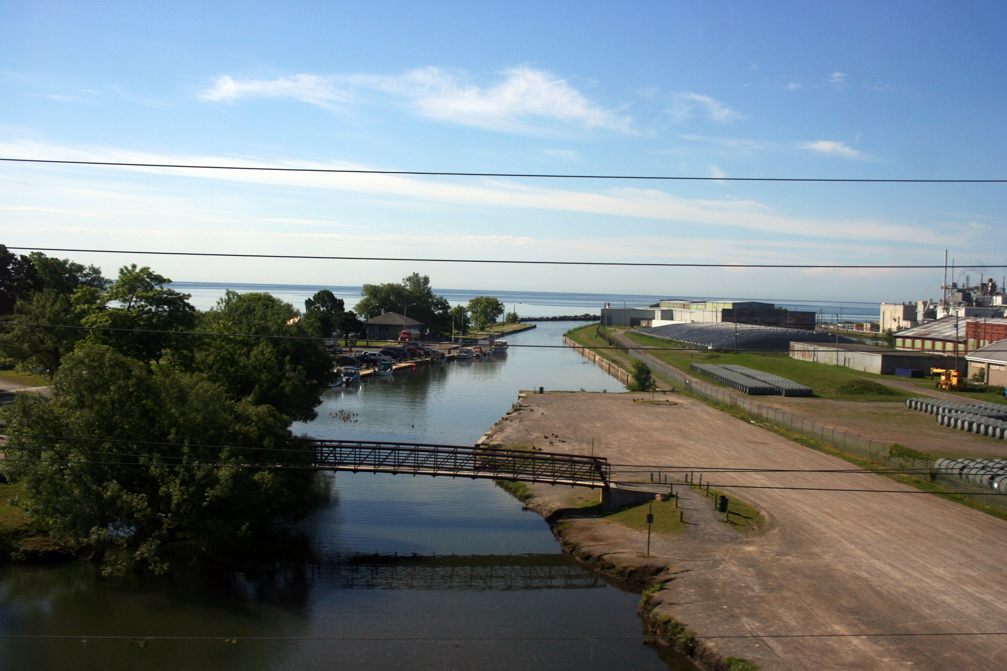 The Ganaraska River that flows through Port Hope empties into Lake Ontario here.